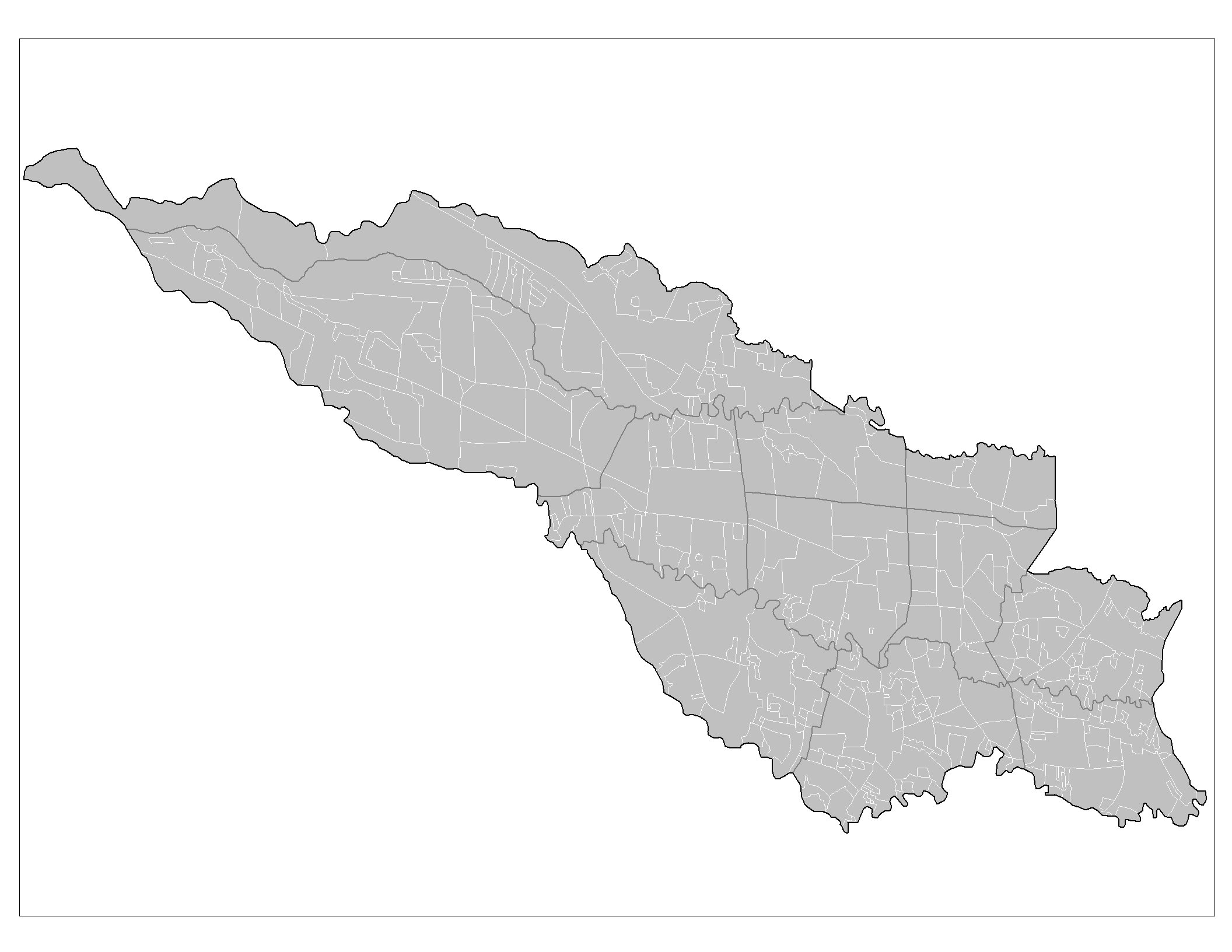 Map of the barrios of San Jose, Costa Rica.